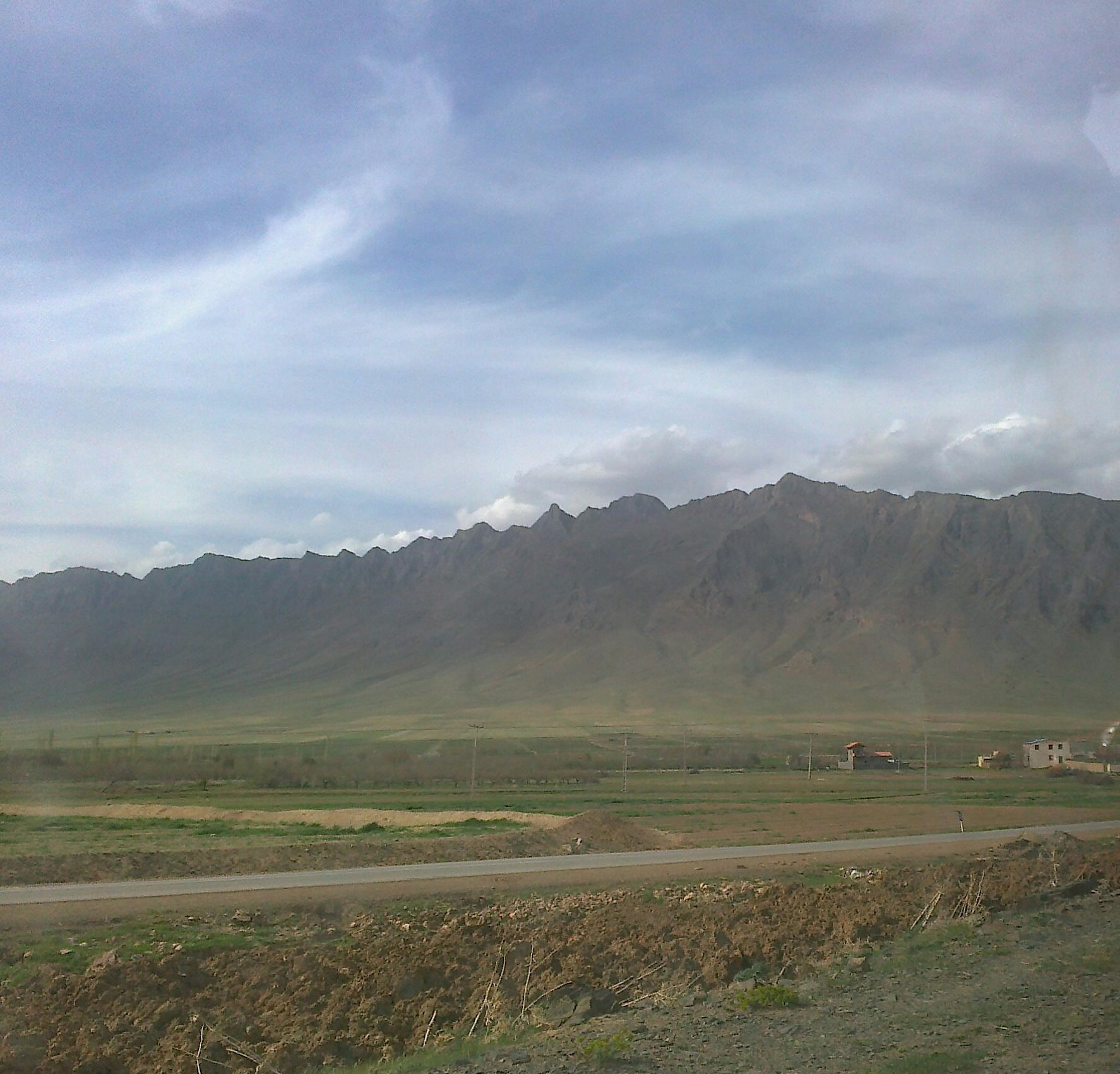 الوند لکان (بلندترین کوه در شهرستان خمین که روستای لکان در دامنه آن واقع شده)در این تصویر زمین های کشاورزی روستا پیدا است